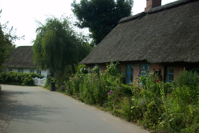 Bohnert / Bonert